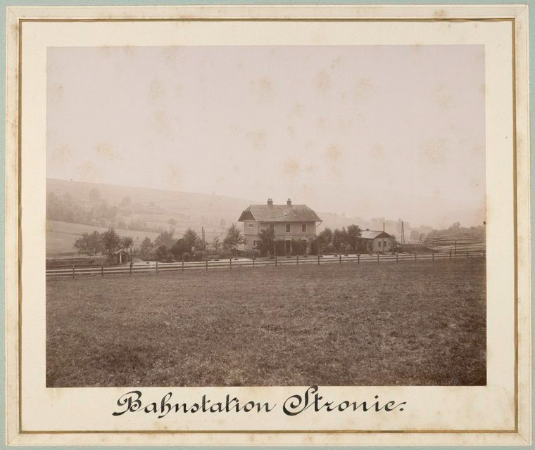 Railroad station in Stronie